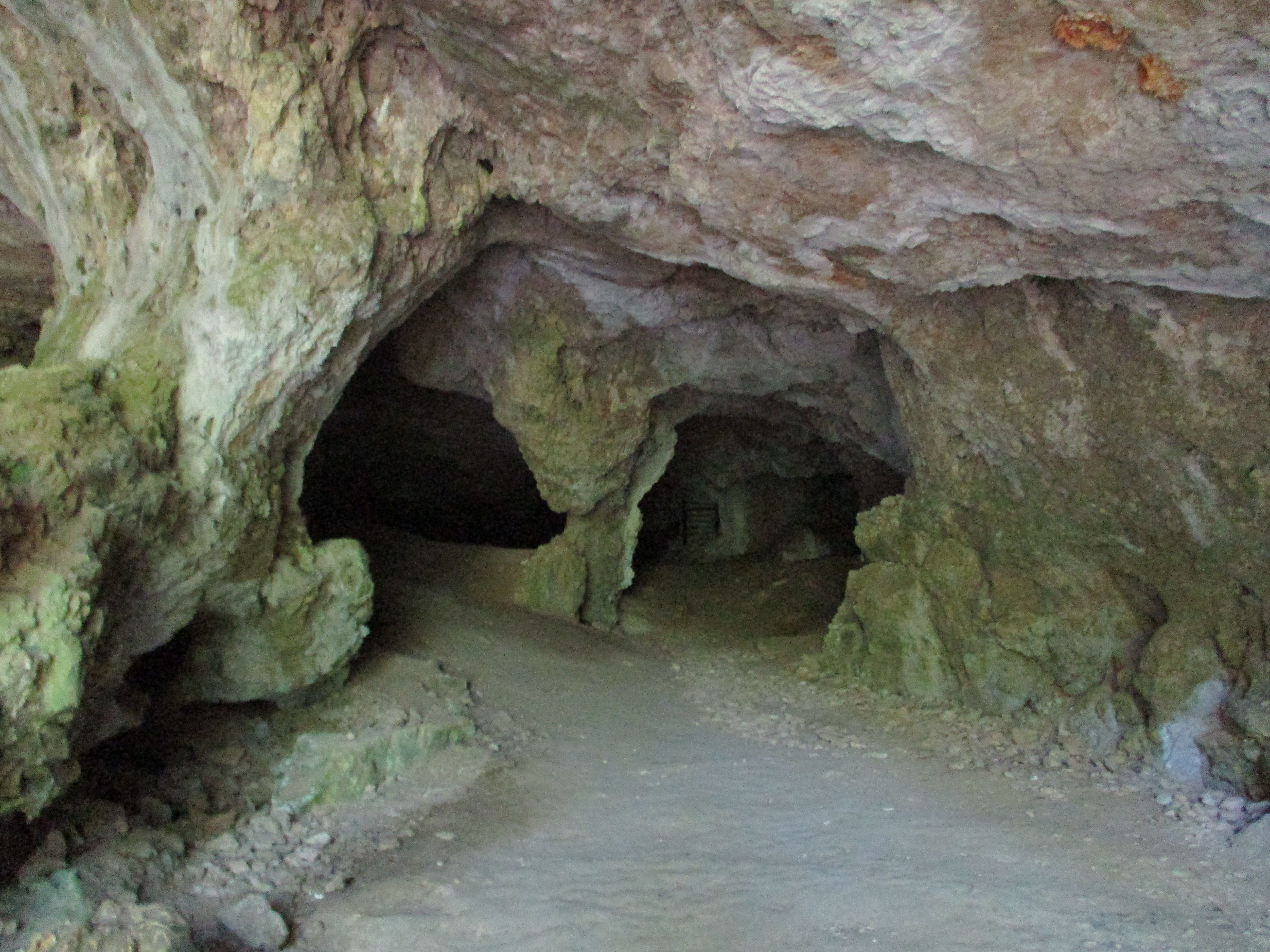 Grotte des Fées, prehistoric site of Arcy-sur-Cure caves, Yonne, Burgundy, France.